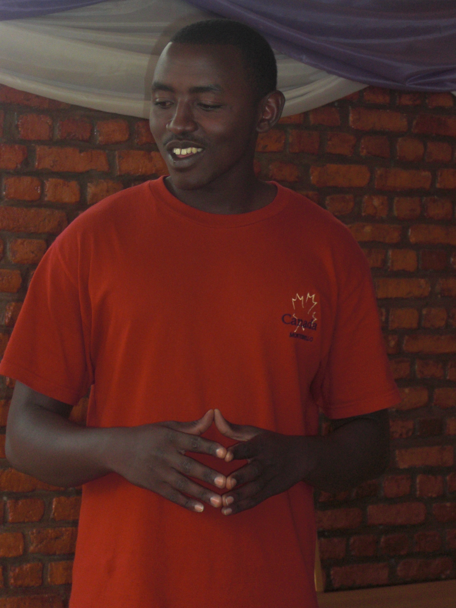 A Tutsi survivor of the Rwandan genocide.